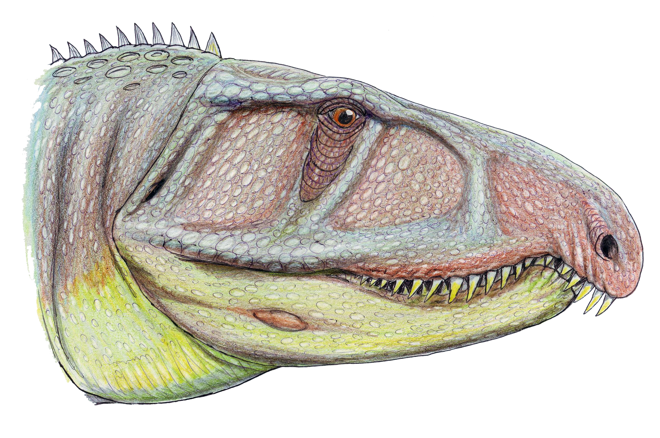 Head of Uralosaurus magnus - erythrosuchid from Middle Triassic (Anisian) of Orenburg region.